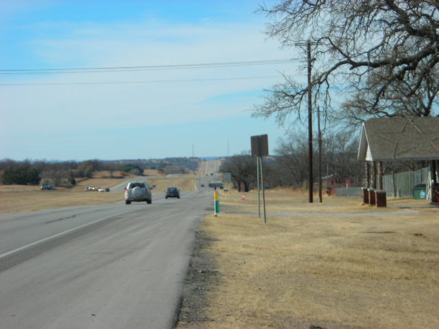 US 180 Westbound between Weatherford and Cool, Texas.